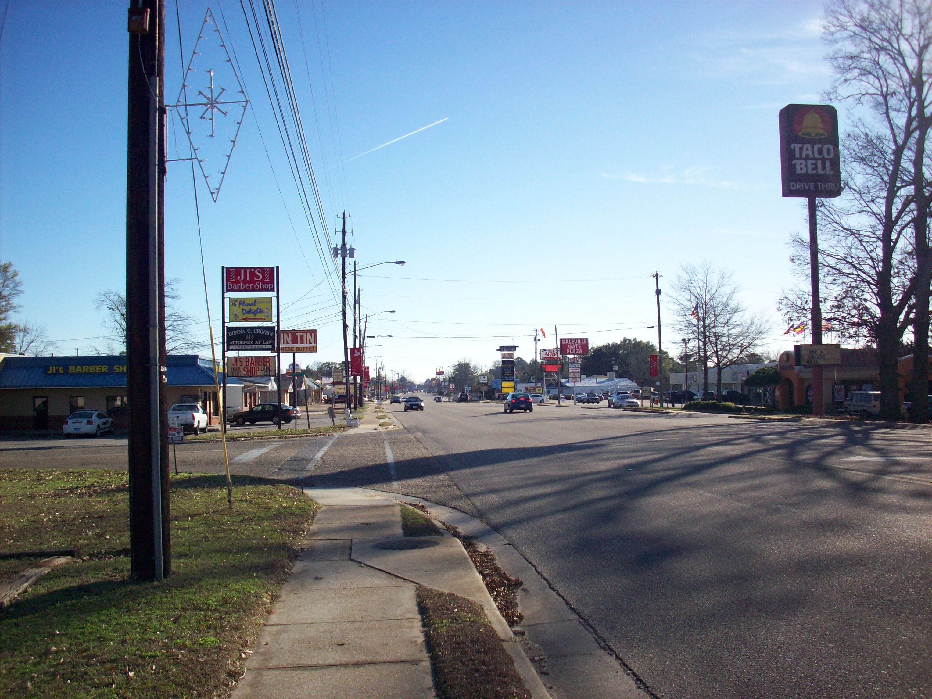 Daleville Avenue in Daleville, AL, looking south.